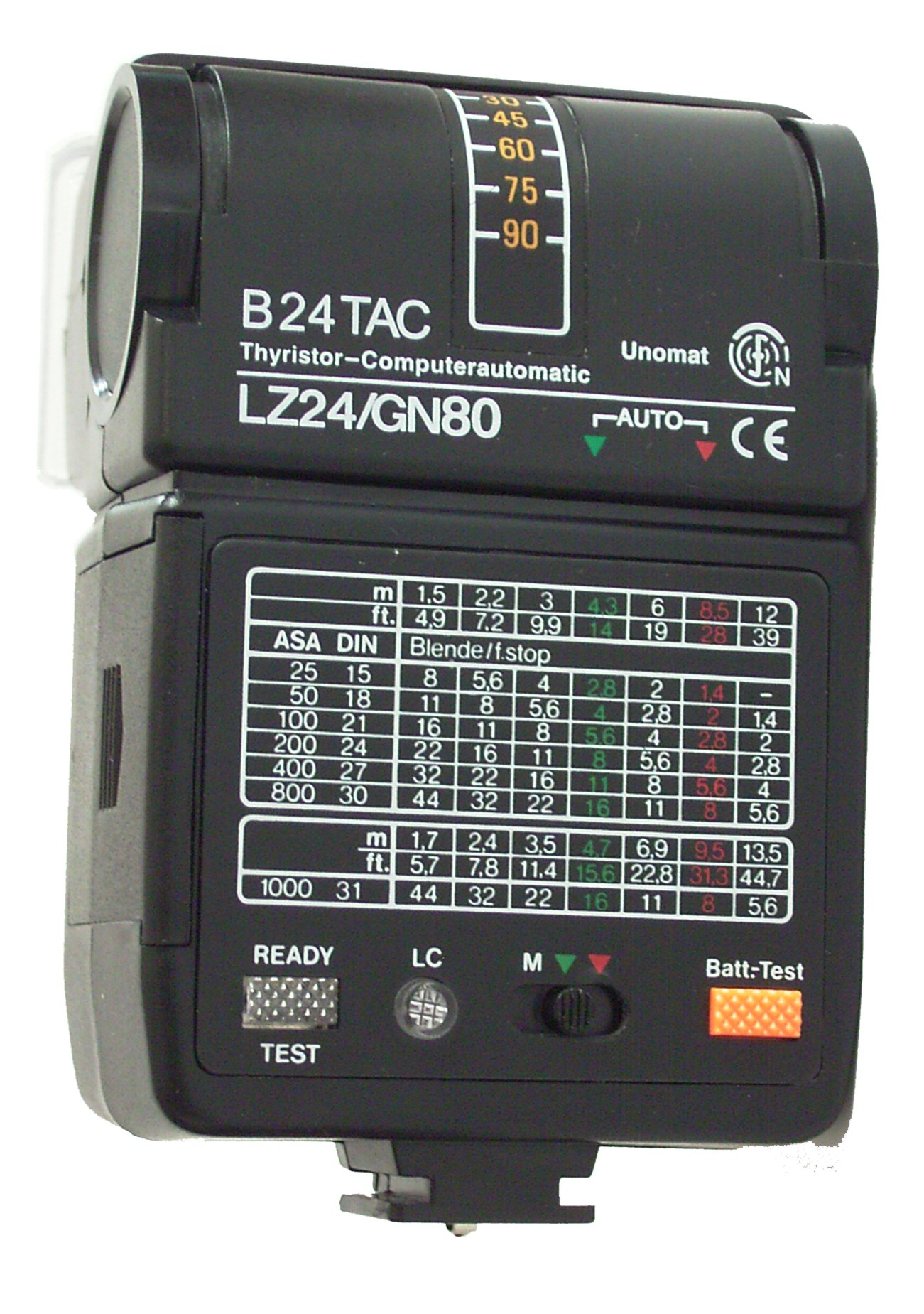 A Flash Equipment for better Light in Images, Back